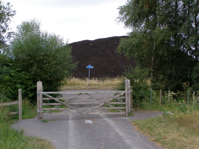 Peat heap on the site of Shapwick Station